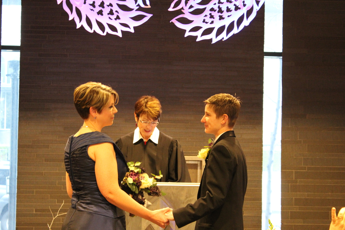 One of the first same-sex weddings performed at Seattle City Hall after the passage of the Washington State Marriage Equality Act. Item 169829, Legislative Department Digital Photographs (Record Series 4600-11), Seattle Municipal Archives.